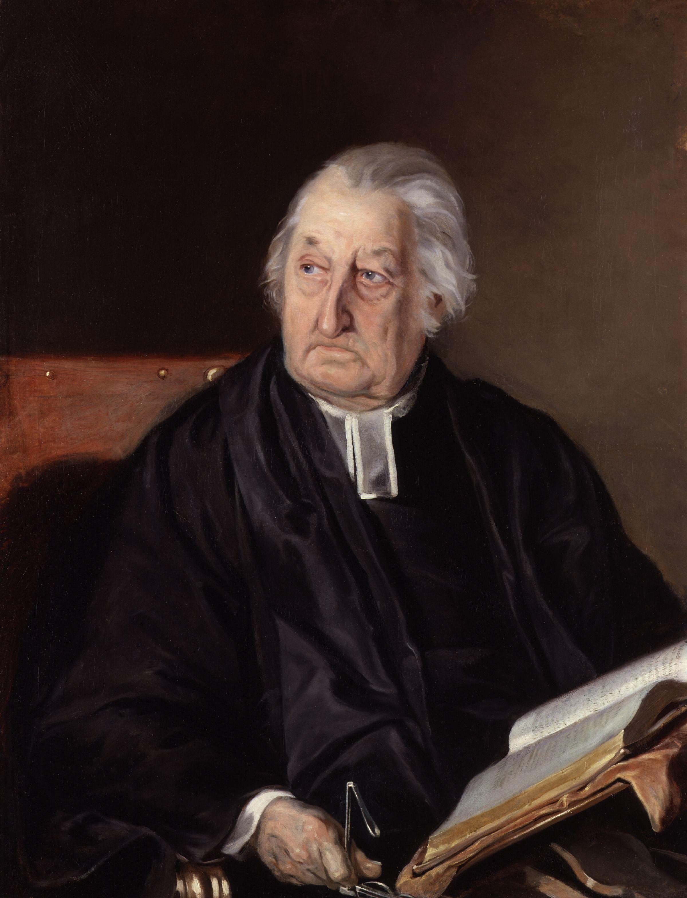 'Rowland Hill, by Samuel Mountjoy Smith (died 1879), given to the National Portrait Gallery, London in 1981. Rowland Hill A.M. (1744-1833), was a popular English preacher, enthusiastic evangelical and an influential advocate of small-pox vaccination. He was founder and resident pastor of a wholly independent chapel, the Surrey Chapel, London; chairman of the Religious Tract Society; and a keen supporter of the British and Foreign Bible Society and the London Missionary Society. All images in this batch have been confirmed as author died before 1939 according to the official death date listed by the NPG.